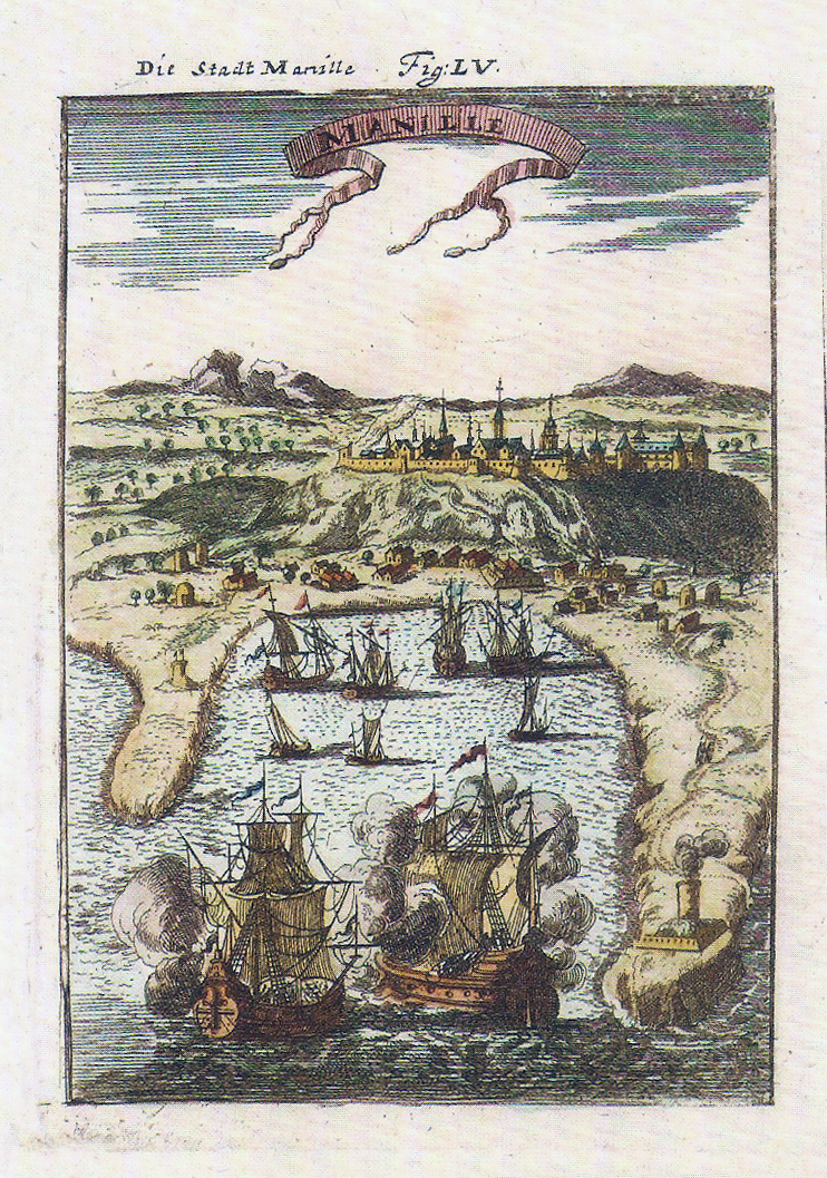 Portrait of Manila by Allain Mallet. 1684